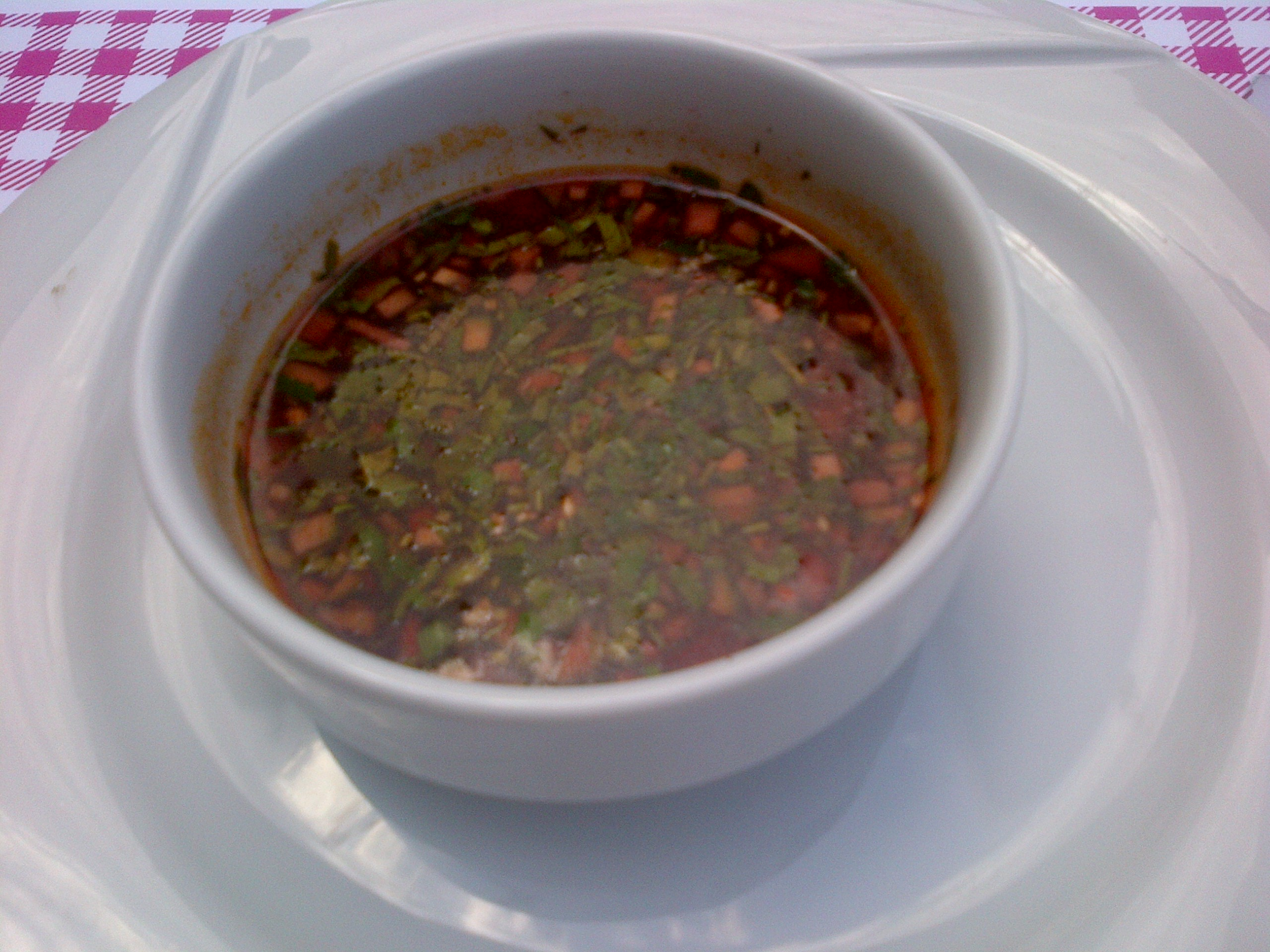 Bostana from Urfa, Turkey.